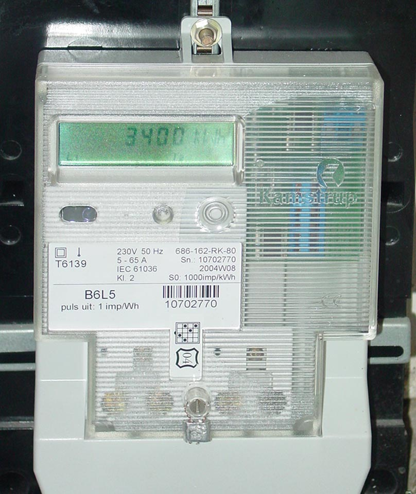 Solid state danish made electricity meter in a home in Holland.